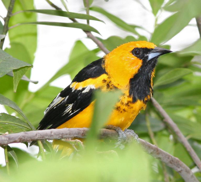 Spot-breasted Oriole